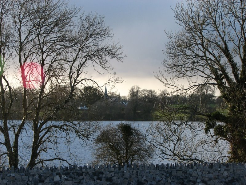 Photo is taken in Boheraroan housing estate at lakeside. Killinasoolagh church (Church Of Ireland) is visible on the other side of the lake.